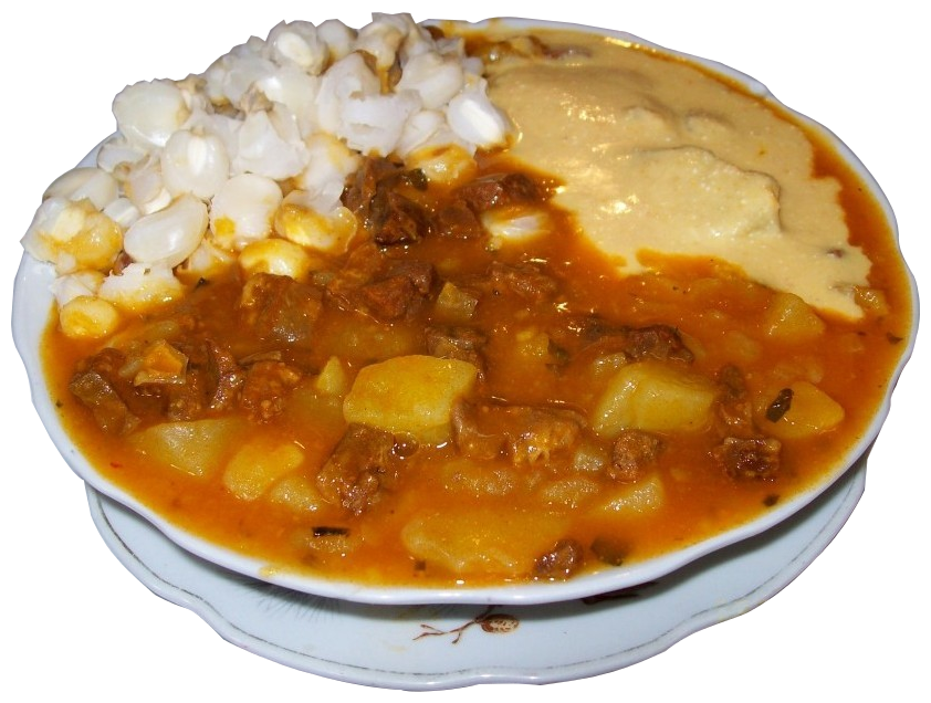 Photo of Chanfainita peruvian dish as presented in VI Feria Internacional Gastronómica de Lima "Mistura 2013" by "Restaurante Doña Nora".